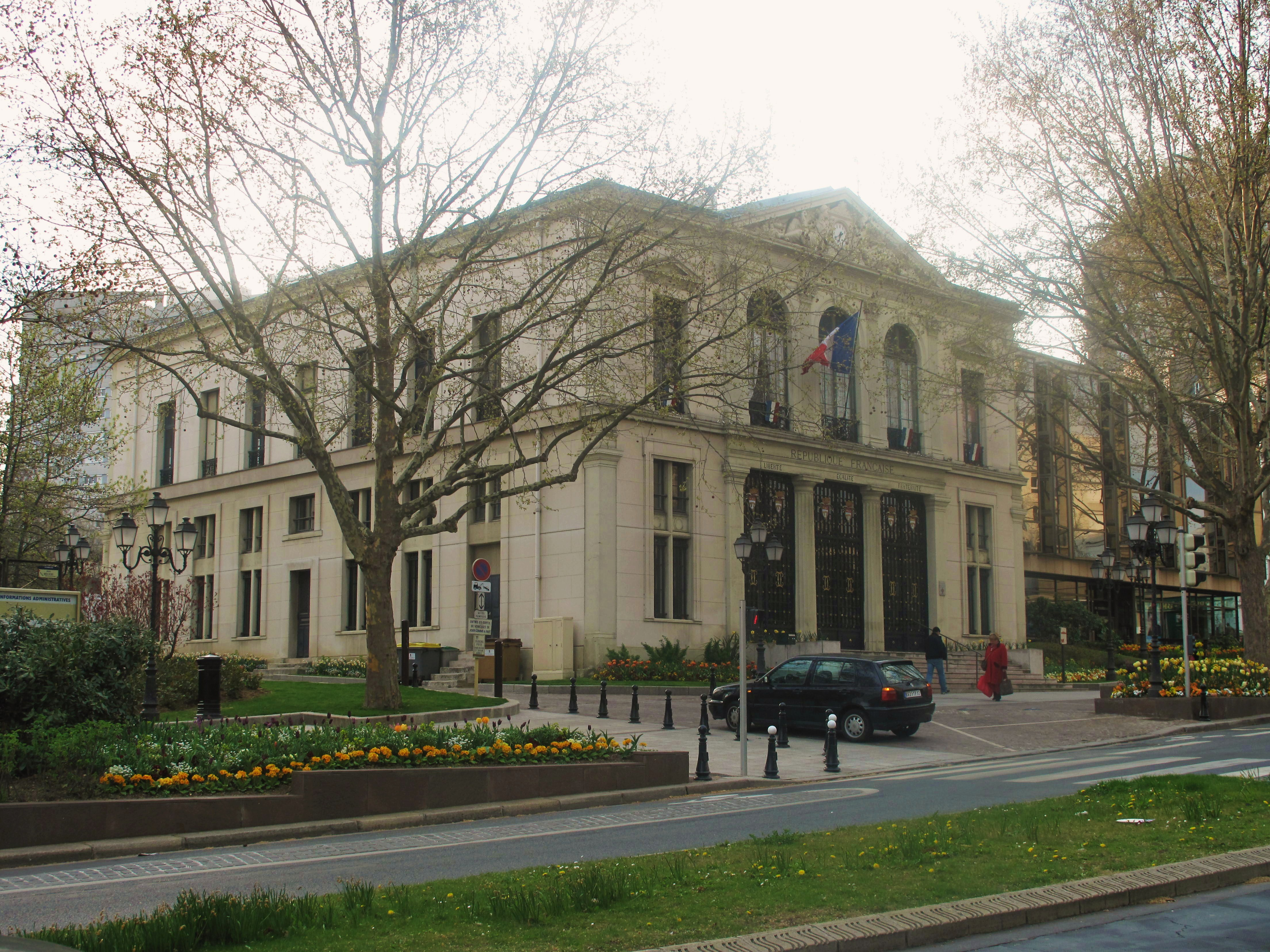 Courbevoie town hall, France